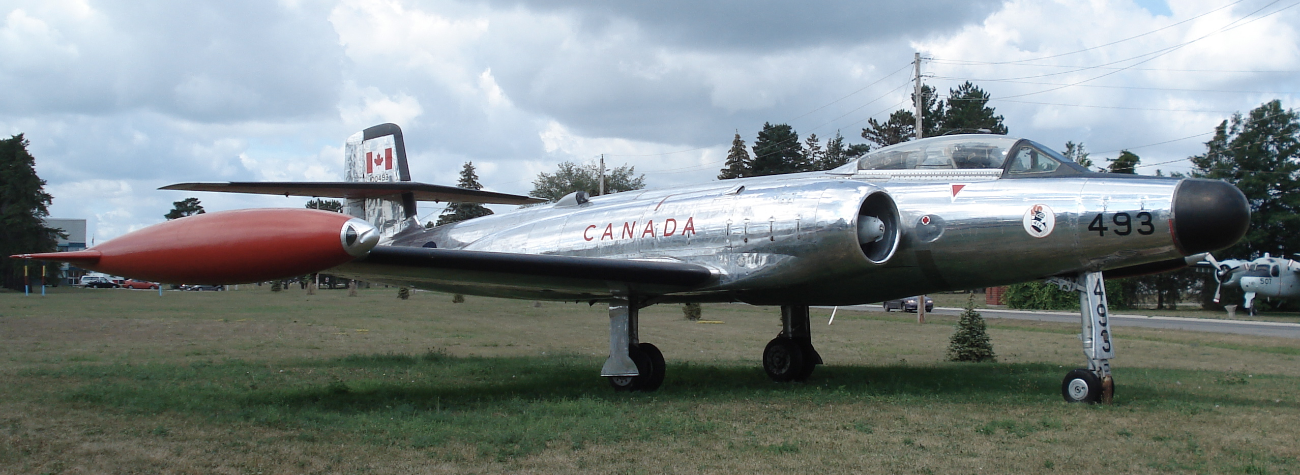 Canadian fighter CF-100 Canuck. This example is displayed on the grounds of CFB Borden (Base Borden Military Museum). Photo taken on August 18, 2006. Source: Photo by me, User:Balcer.